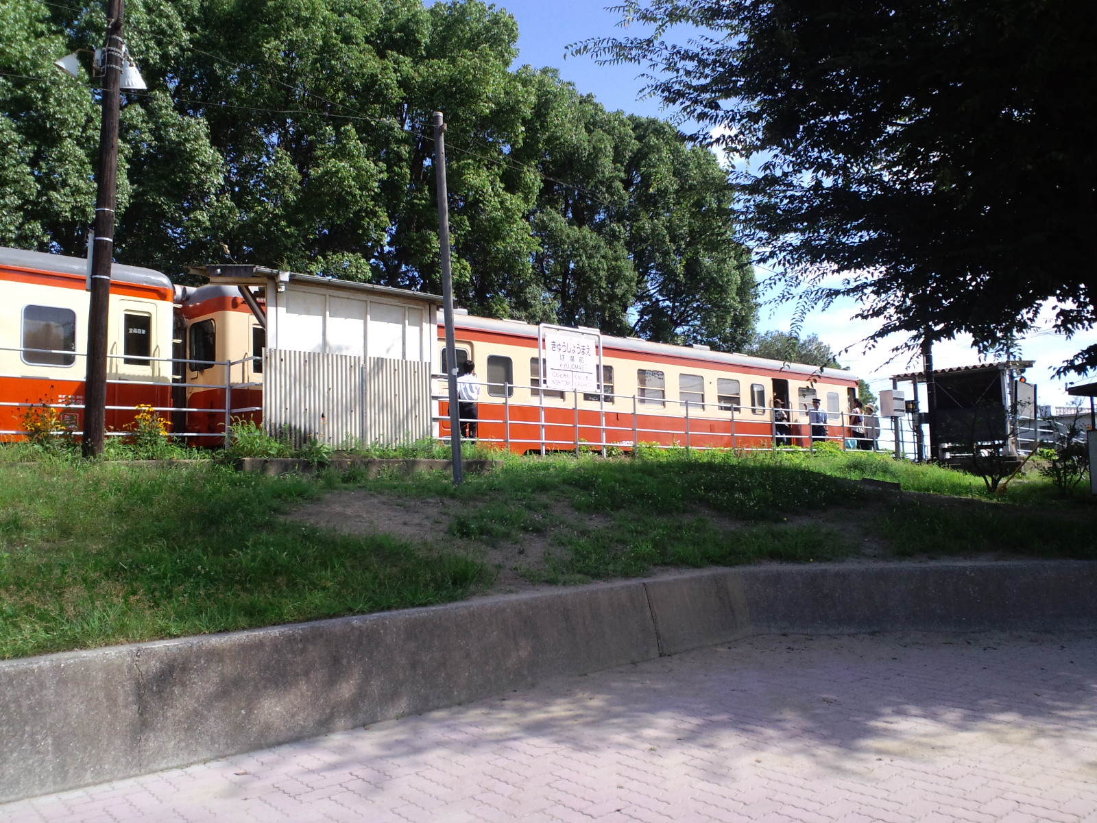 Kyujou-mae station, Mizushima Rinkai Railway